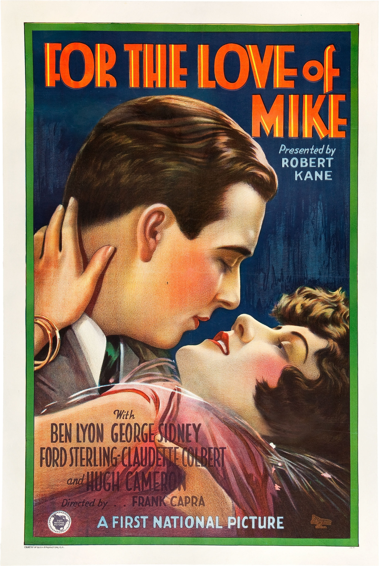 Poster for the 1927 film For the Love of Mike. There are no copyright marks on the item. At bottom left is Country of origina and productions USA. At bottom right is the Morgan Litho Company logo--they printed the poster.